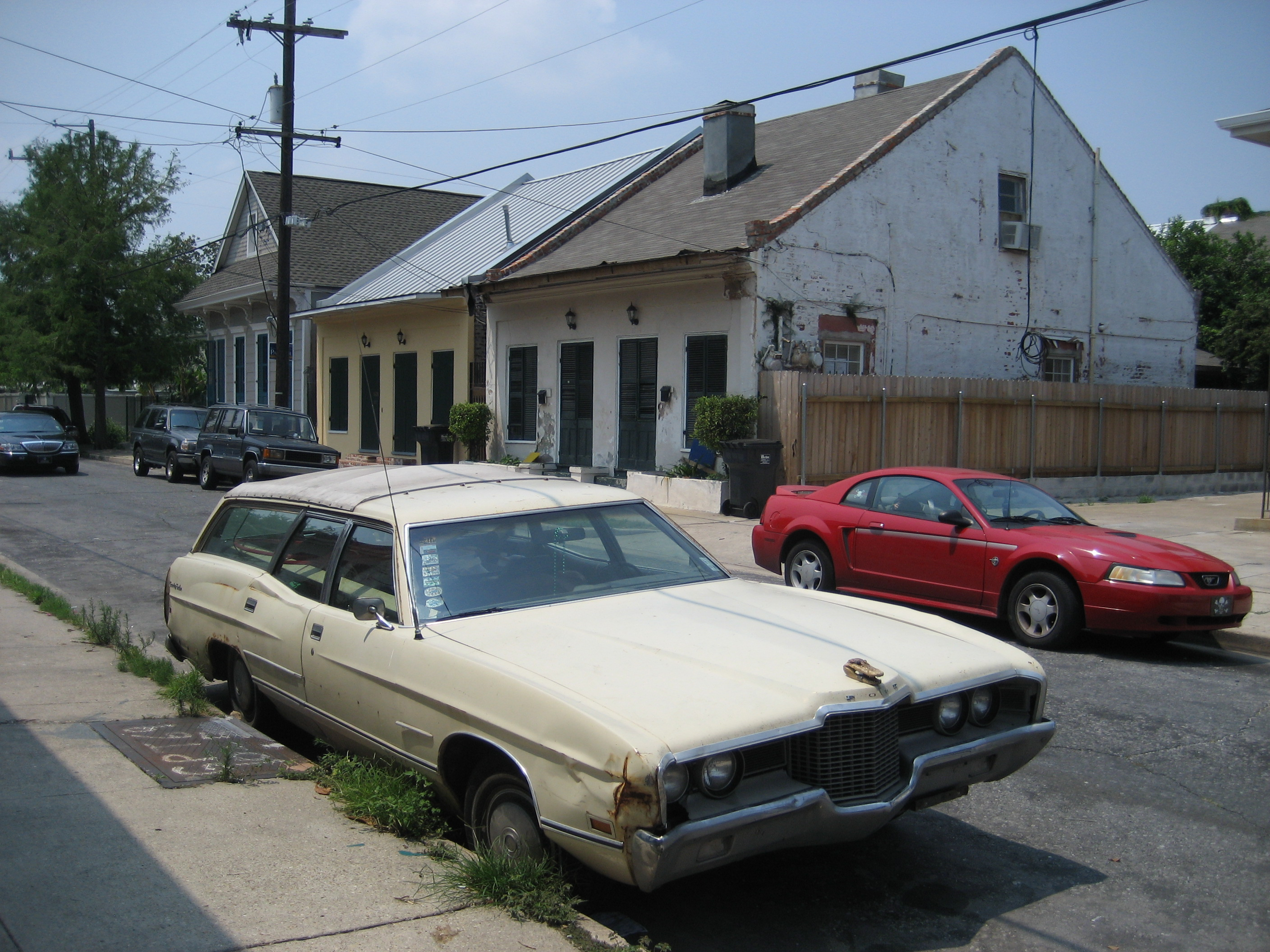 Faubourg Marigny neighborhood of New Orleans.